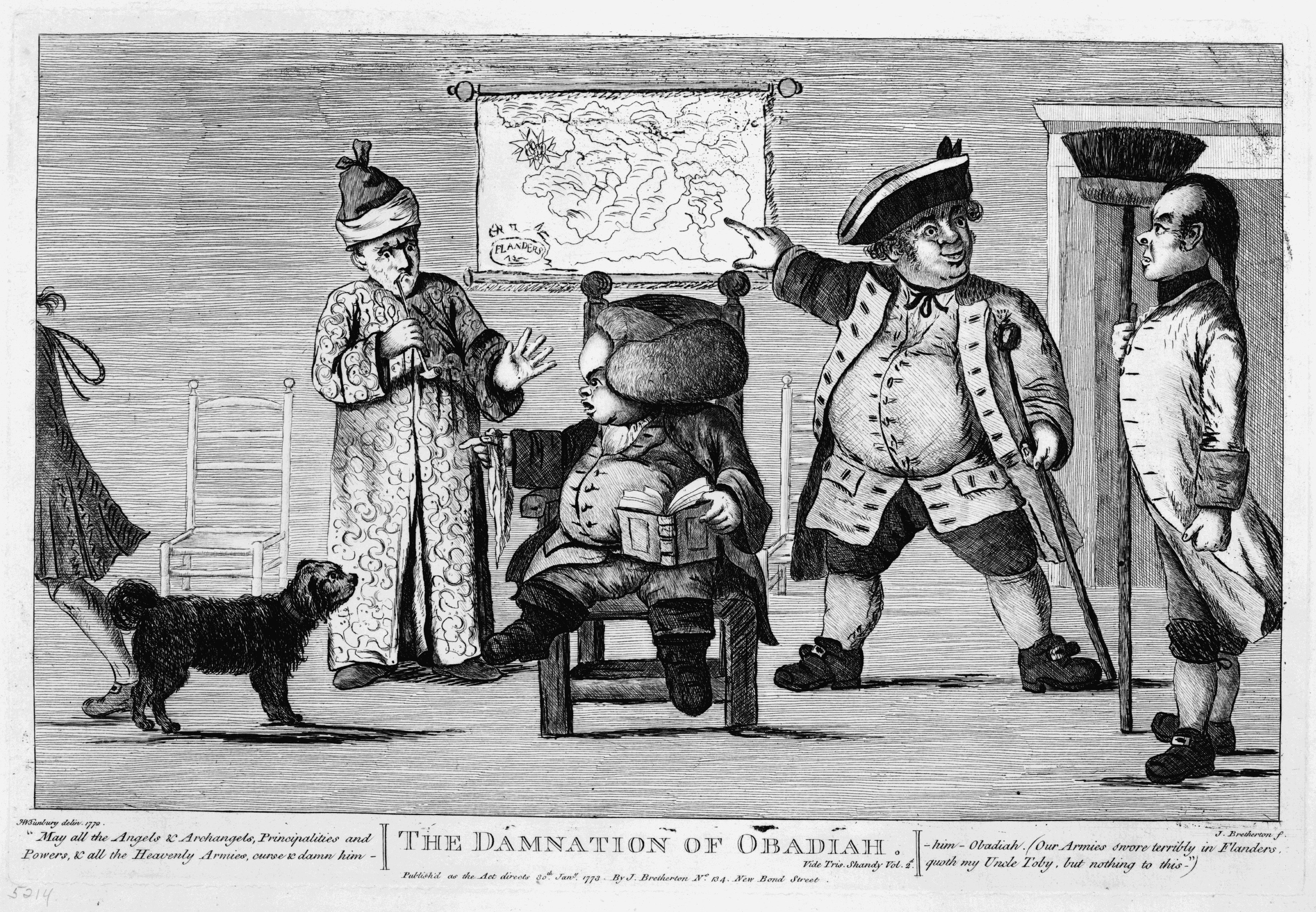 The damnation of Obadiah. One of a series of illustrations to Laurence Sterne's The life and opinions of Tristram Shandy, Gentleman showing Dr. Slop holding book containing the form of excommunication, and pointing at Obadiah who is disappearing, one leg and his back alone being visible. Behind Dr. Slop stands Mr. Shandy and Uncle Toby, with crutch under his left arm, pointing at map of Flanders and speaking to Corporal Trim. Creator: Henry William Bunbury, 1750-1811, engraver. Publish'd as the act directs 30th Jany. 1773 by J. Bretherton, London.